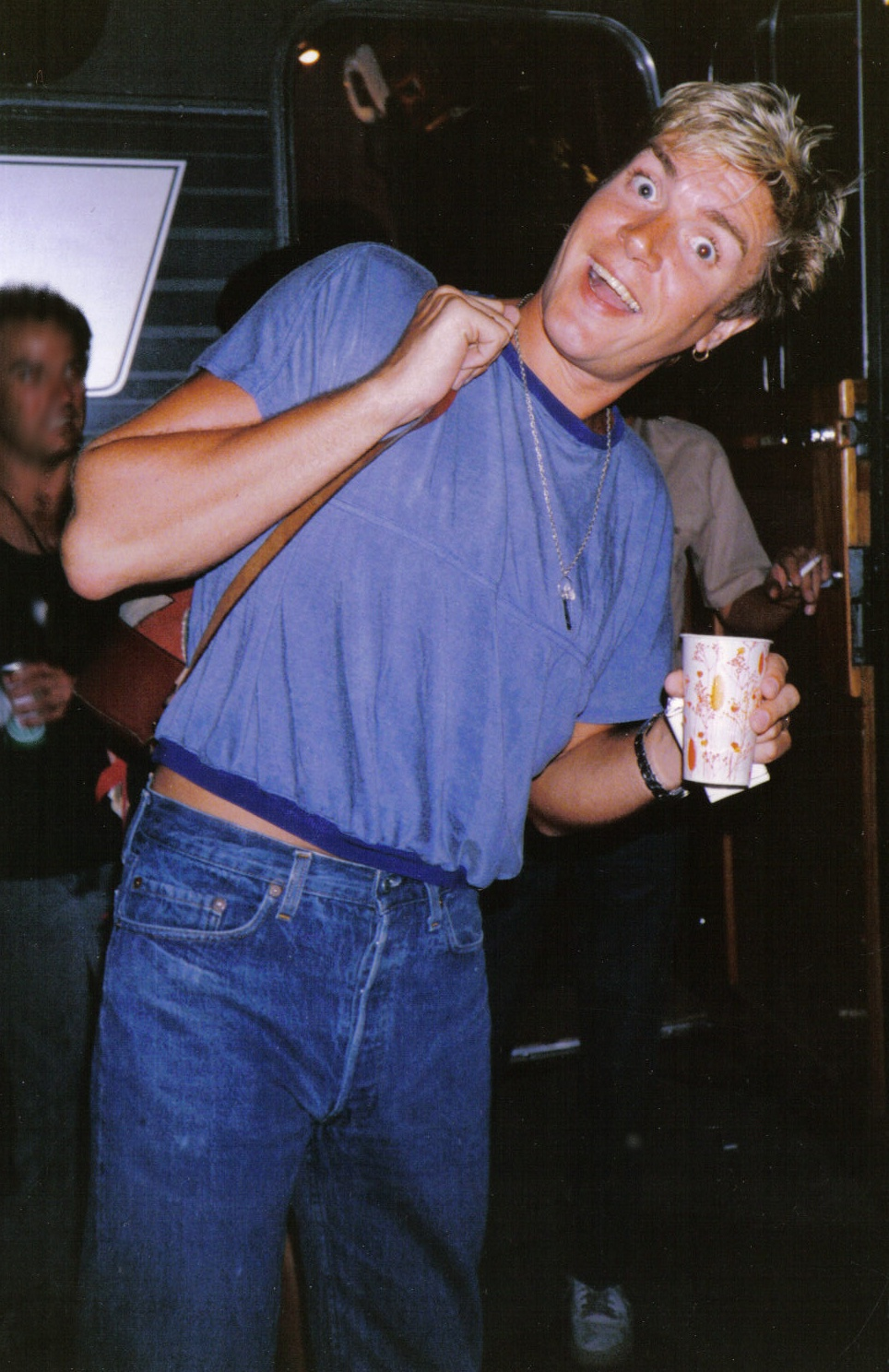 Simon Le Bon of Duran Duran at Cal Expo - Sacramento, California, USA